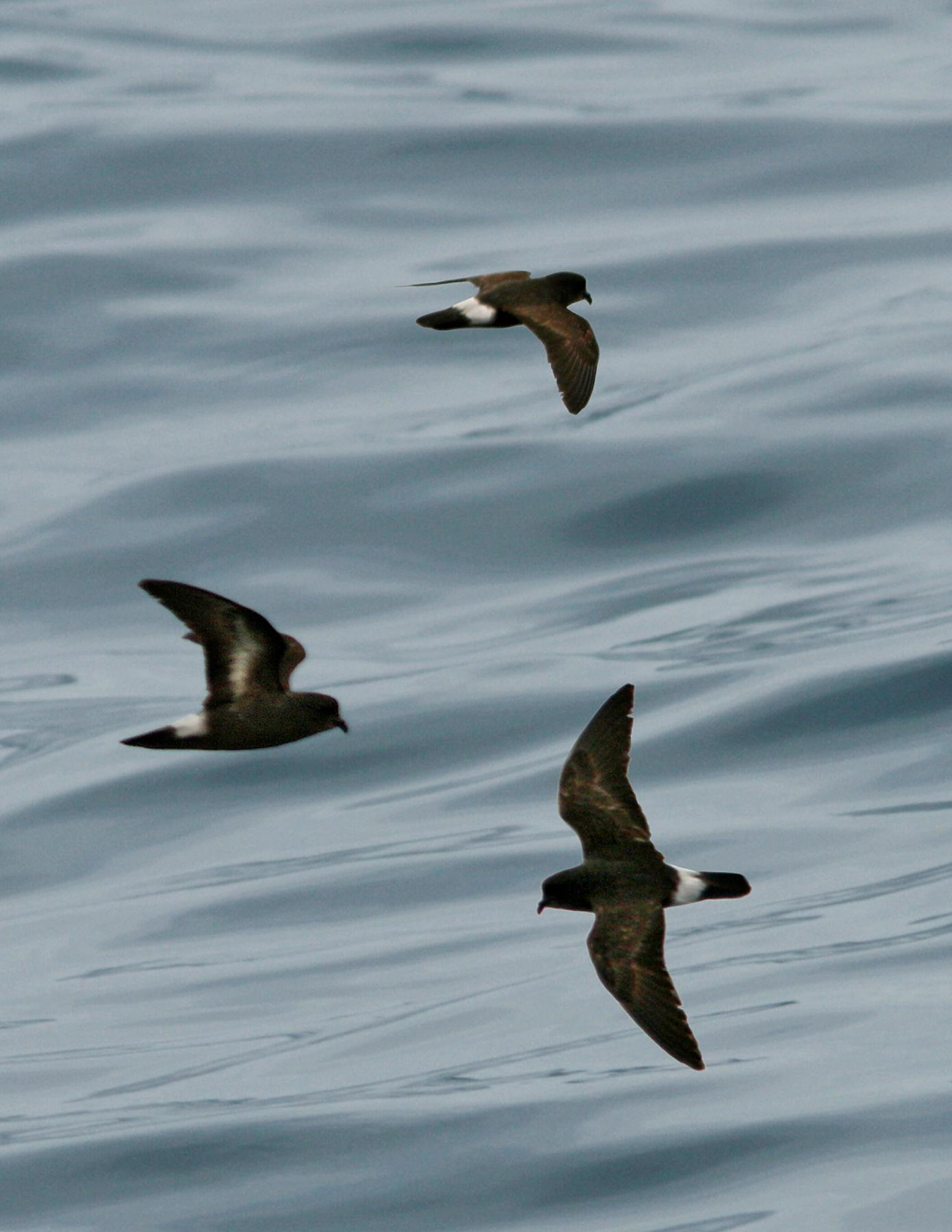 European Storm Petrel From The Crossley ID Guide Eastern Birds